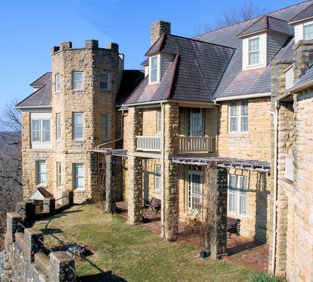 Close up of the west front of Bothwell Lodge in Sedalia, Missouri. Created by stitching together two photographs and tweaking the saturation to compensate for washed out color from strong light.